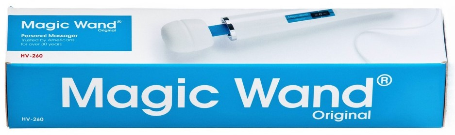 Packaging for the "Magic Wand Original", manufactured by Hitachi and sold by Vibratex in the United States.